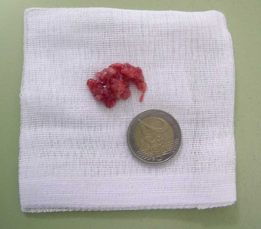 Removed Tonsilla pharyngea.